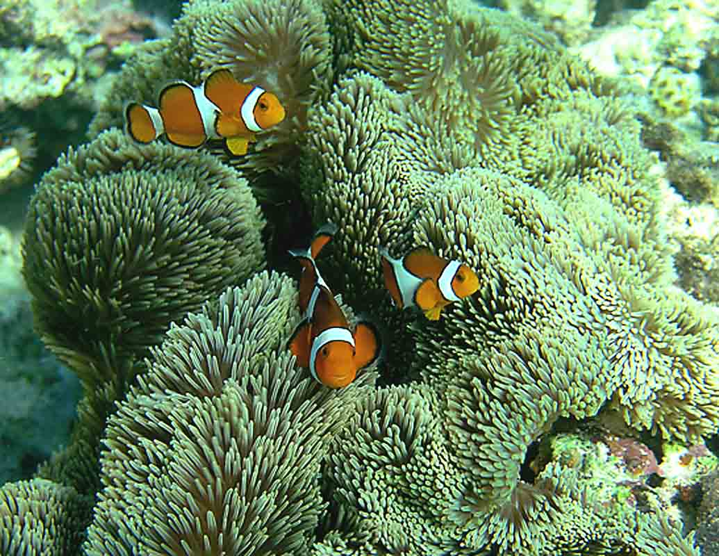 The clownfish Amphiprion ocellaris (known from the Walt Disney/Pixar cartoon Finding Nemo). Photo is from a coral reef near the Japanese island Sesoko and taken 2 m below water surface. In the background is the giant carpet anemone Stichodactyla gigantea with which the clownfish forms a symbiosis.